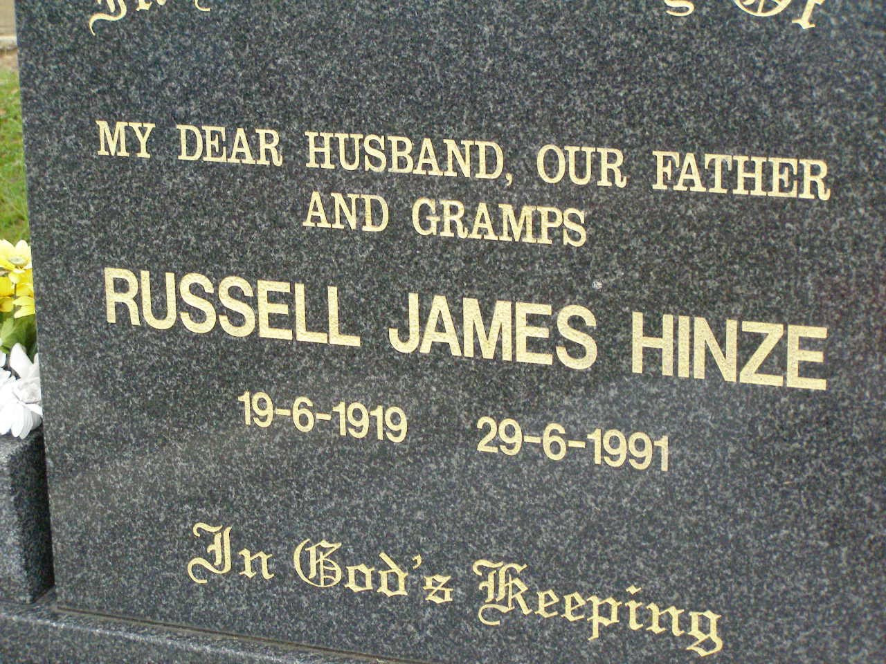 Headstone for Russ Hinze in Lower Coomera cemetery, Gold Coast, Queensland, Australia. Photo taken by us on 10 March 2007.